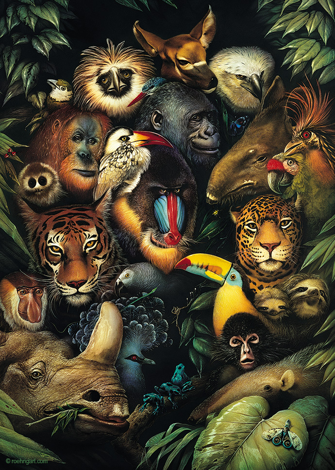 Animals of the Rainforest